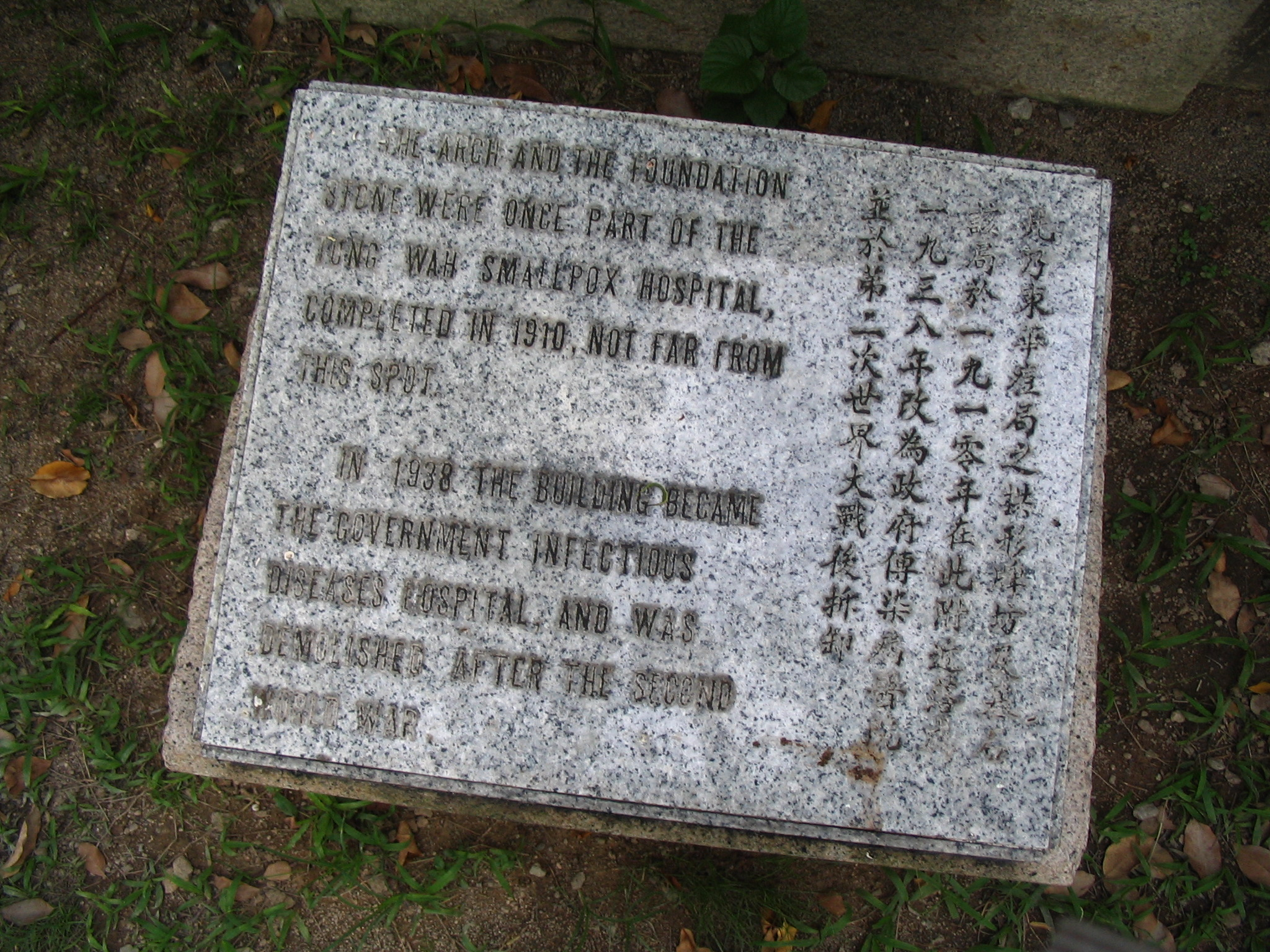 Photo of Tung Wah Smallpox Hospital